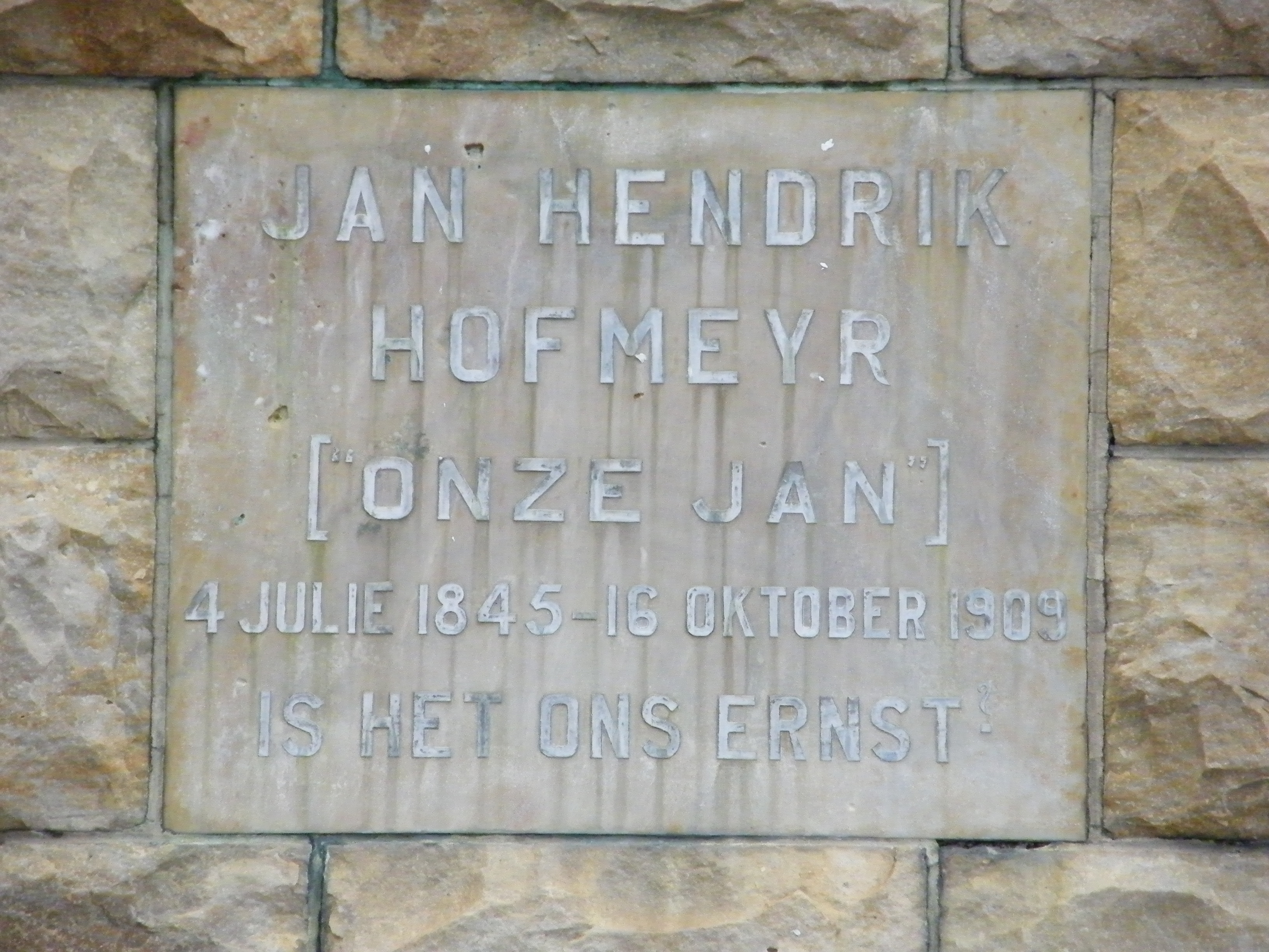 This media shows a South African Protected Site with SAHRA file reference 9/2/018/0140.